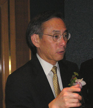 Dr. Steven Chu giving a seminar at the Chinese University of Hong Kong.